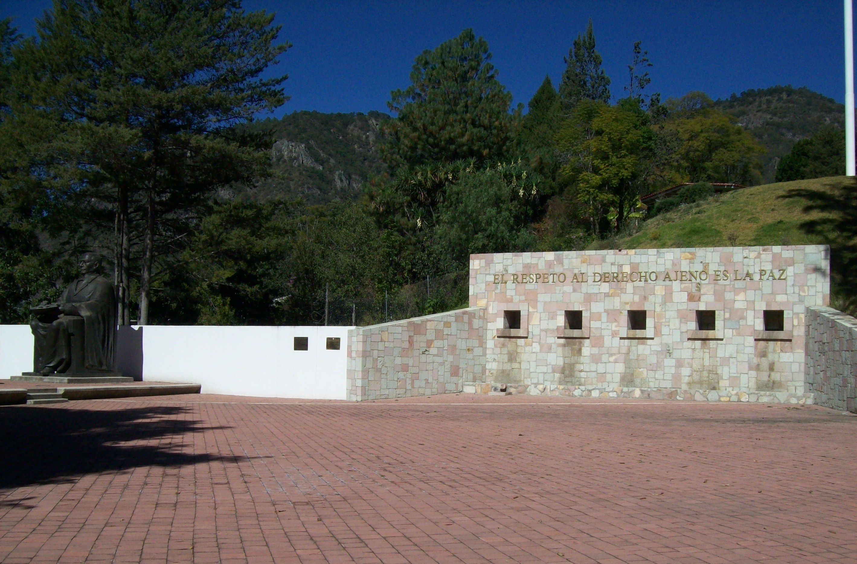 BENITO JUAREZ MONUMENT, IN GUELATAO DE JUAREZ; OAXACA, MEXICO